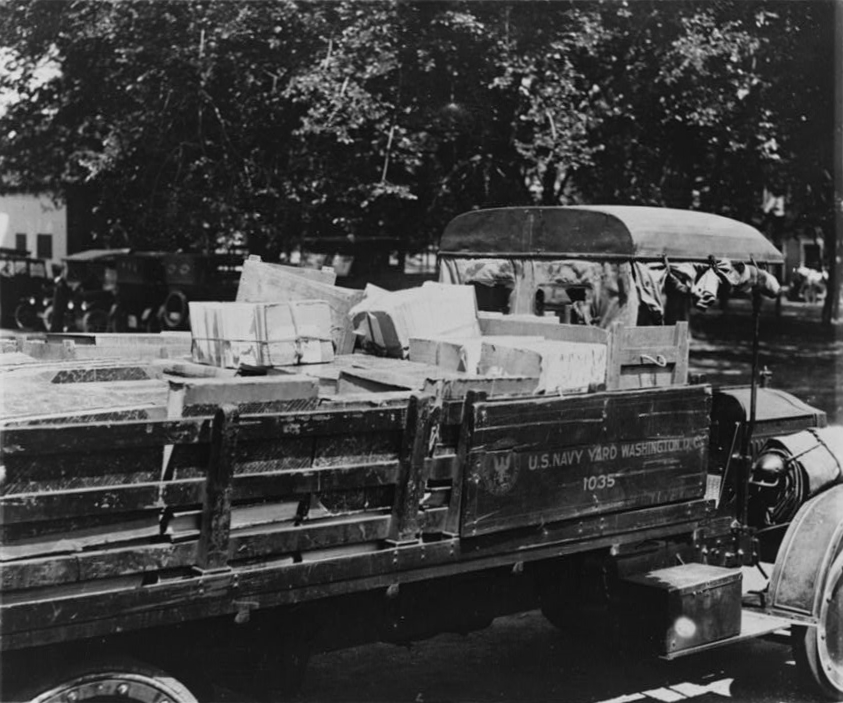 Bundles of census records, including the first census of the United States on truck, Washington, D.C.